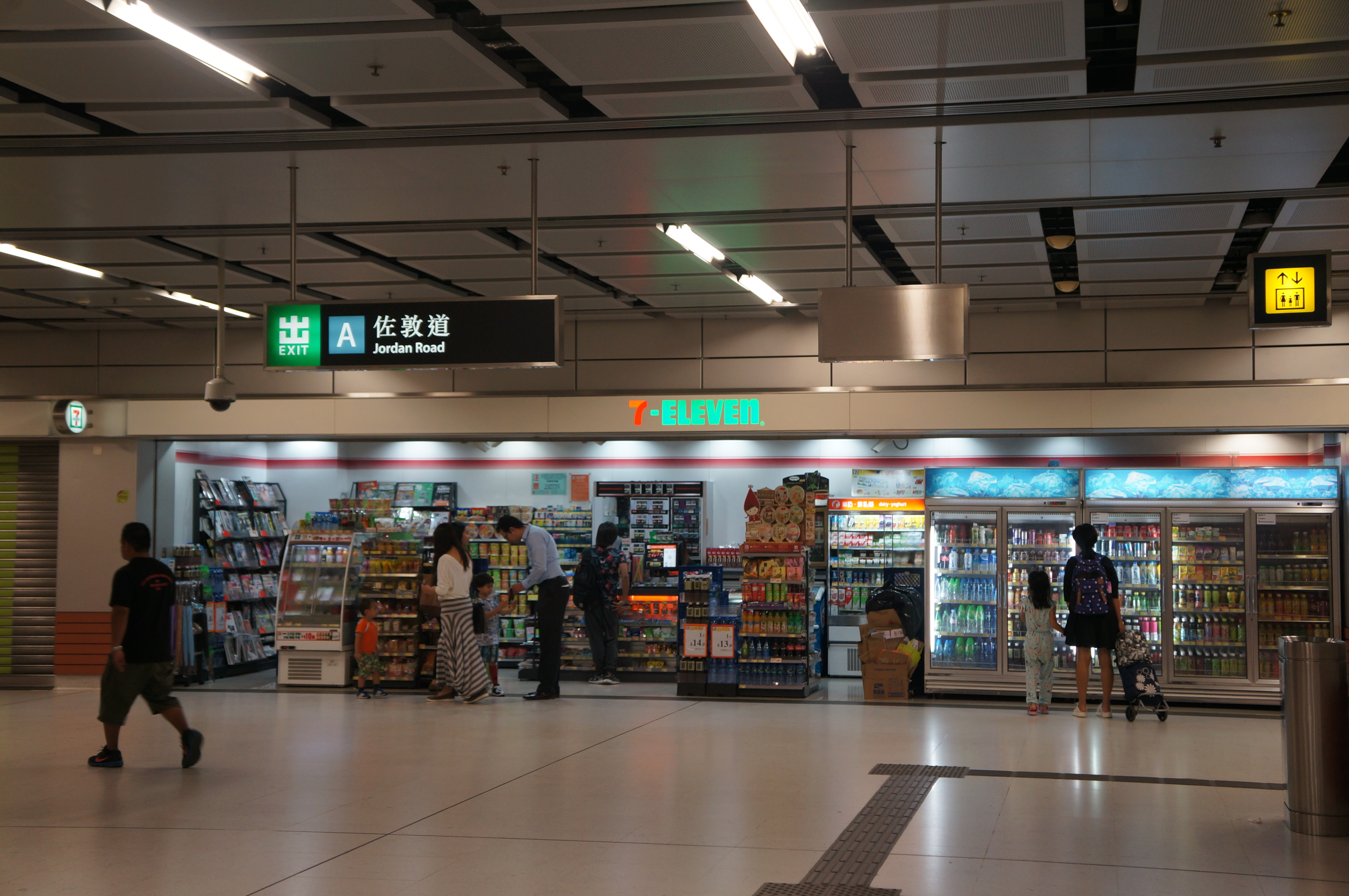 201609 7-11 stores at Austin Station